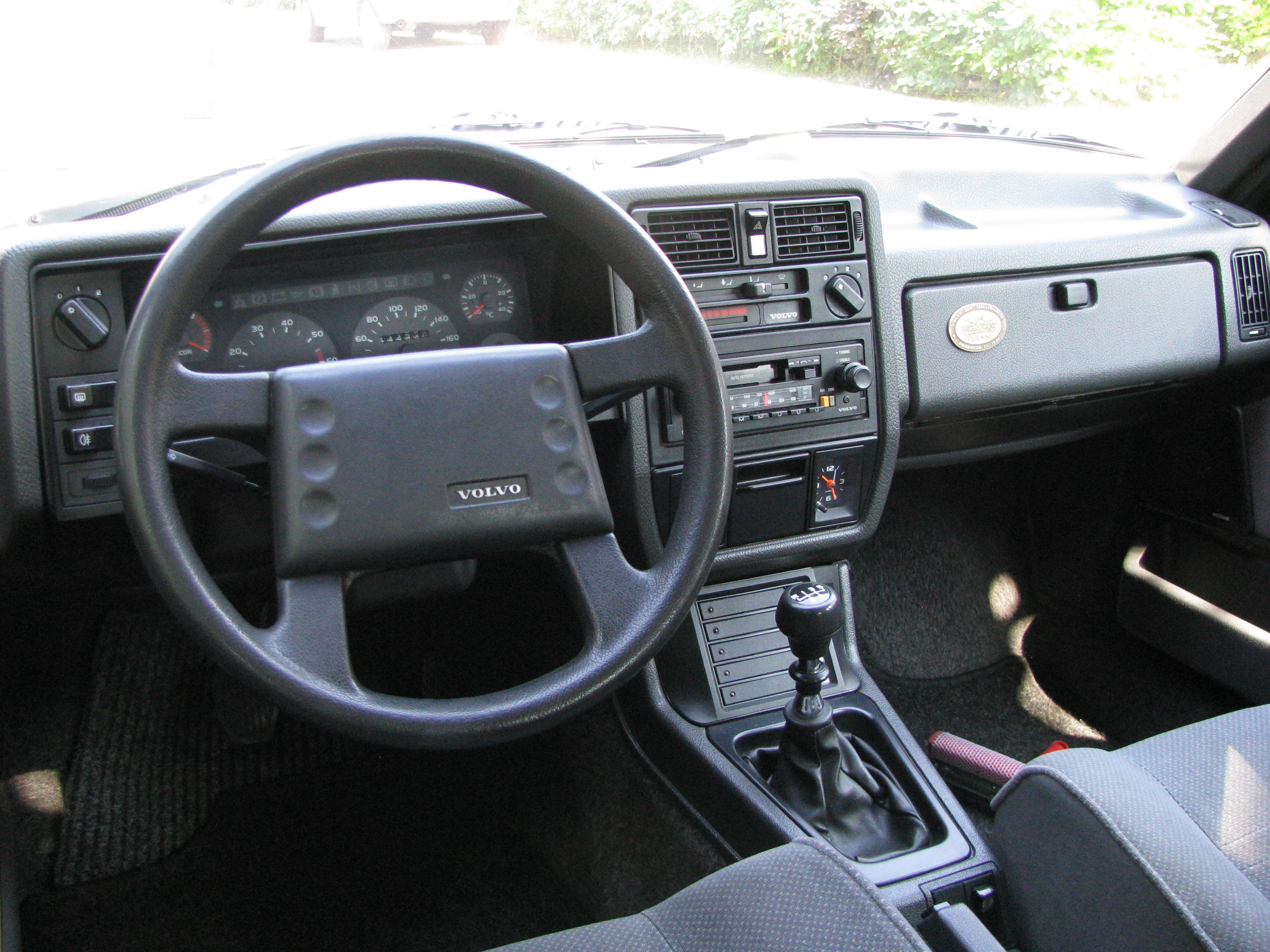 Volvo 340 dashboard. A dashboard of a Volvo 340 with multiple factory options, like: econometer, outside thermometer, cassette storage, and a luxery steeringwheel.